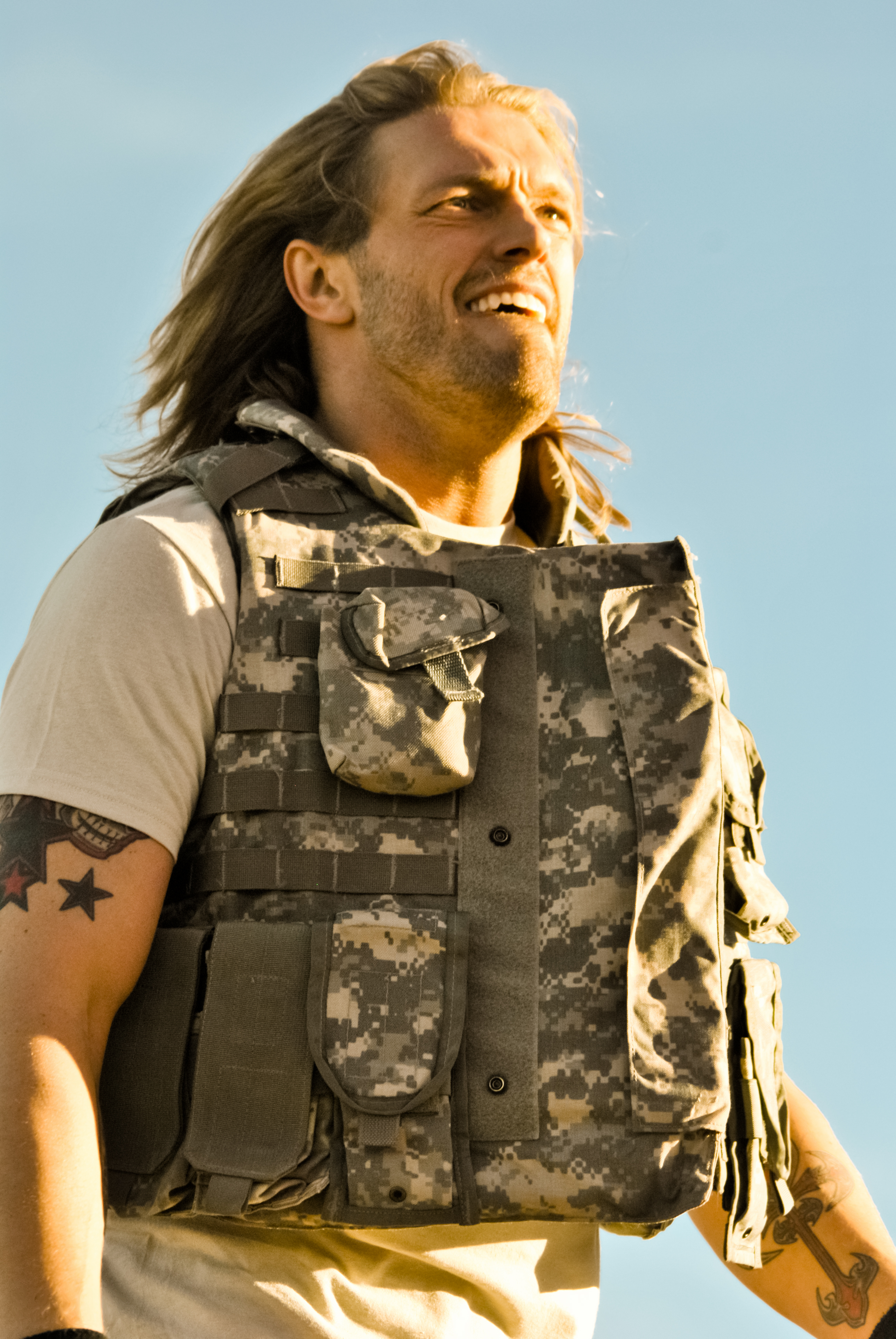 Adam Copeland (Edge) at WWE's Tribute to the Troops event on December 11, 2010 in Fort Hood, Texas.